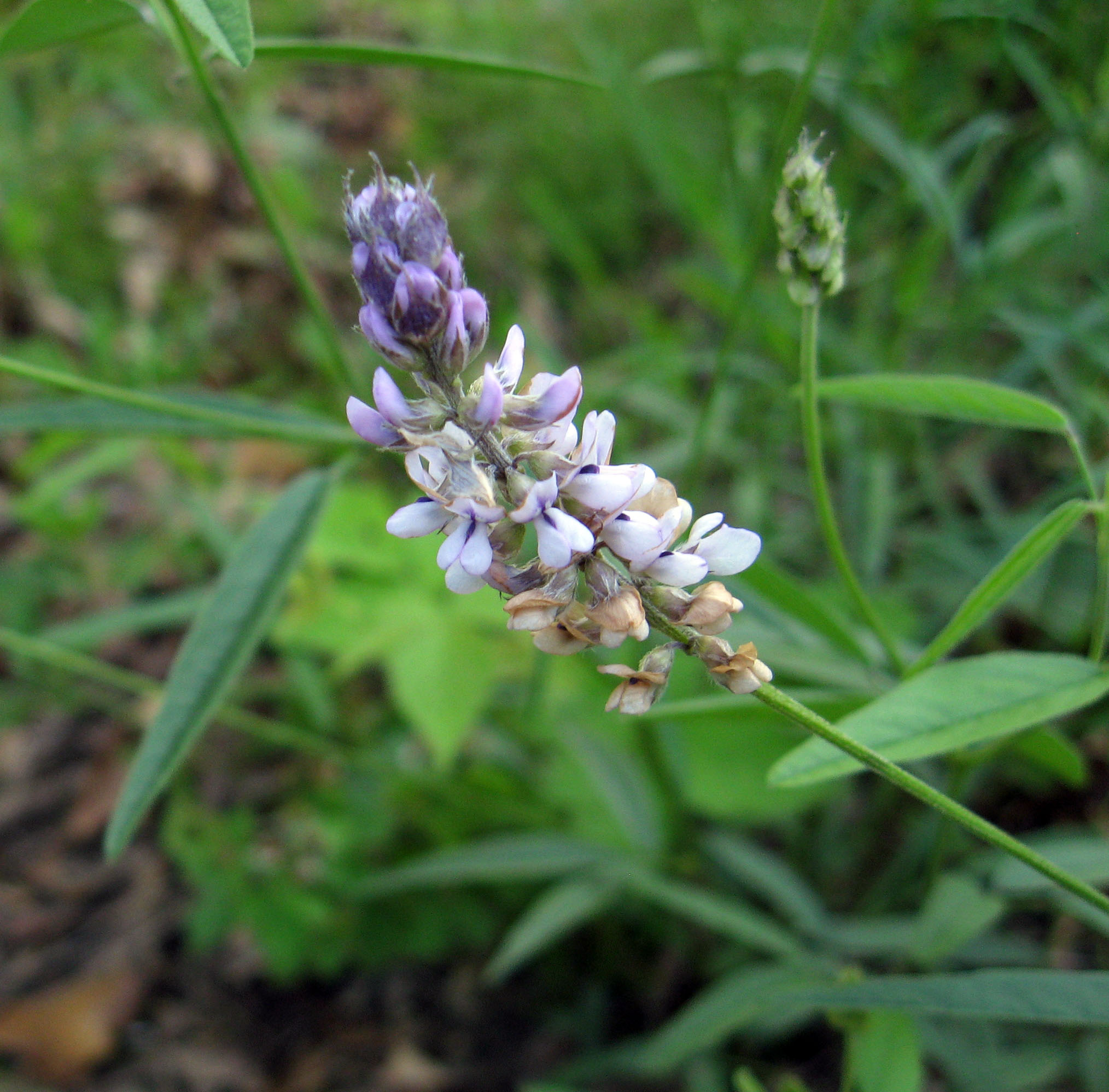 Orbexilum pedunculatum. Grassland at Eastview Barrens, Hardin County, Kentucky.